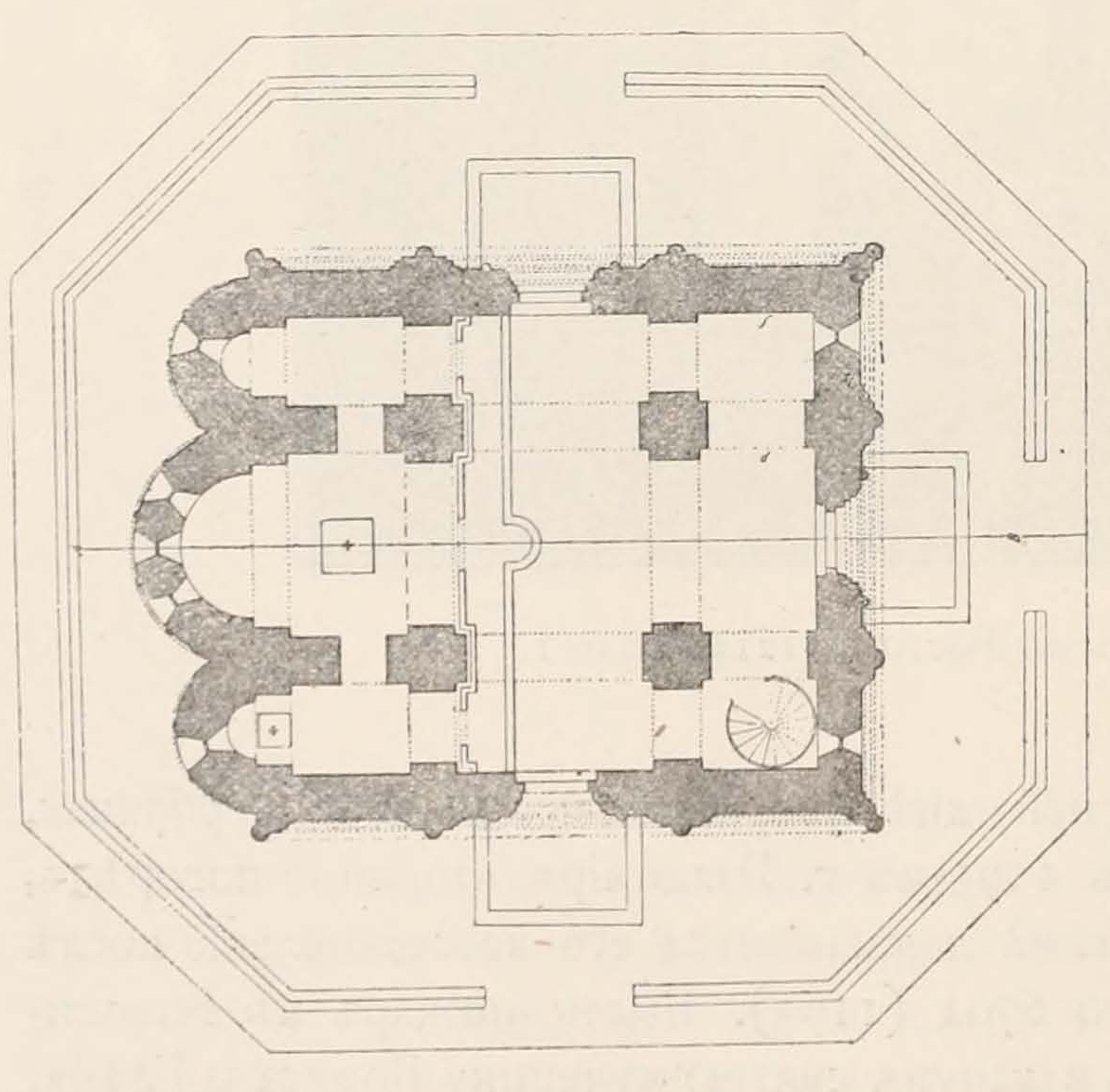 Cathedral of Saint Demetrius in Vladimir (plan)